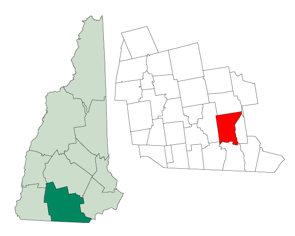 Map of a municipality in Hillsborough County, New Hampshire